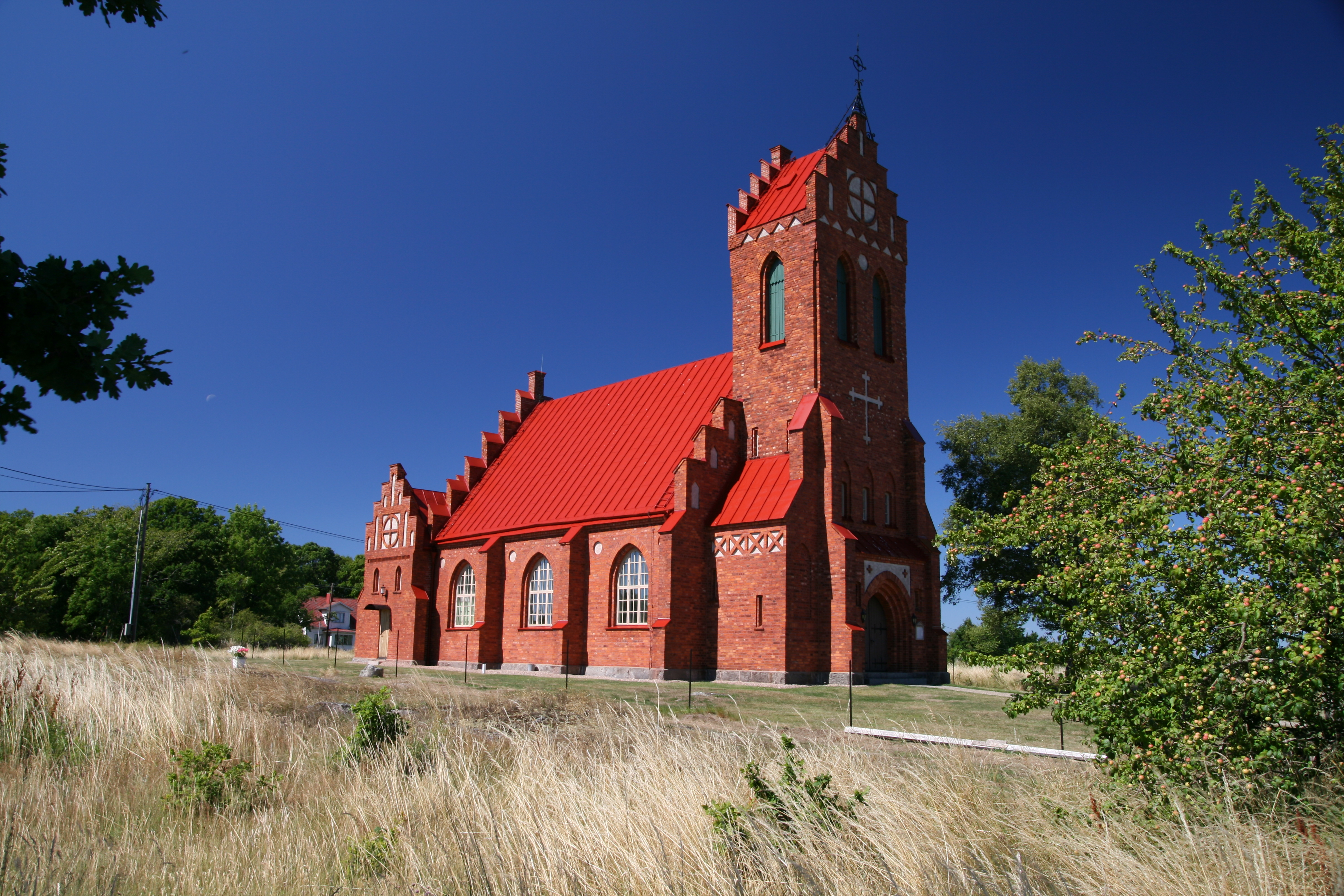 A south-east view of the exterior of the church on the island of Aspö in the archipelago of Karlskrona, Sweden.